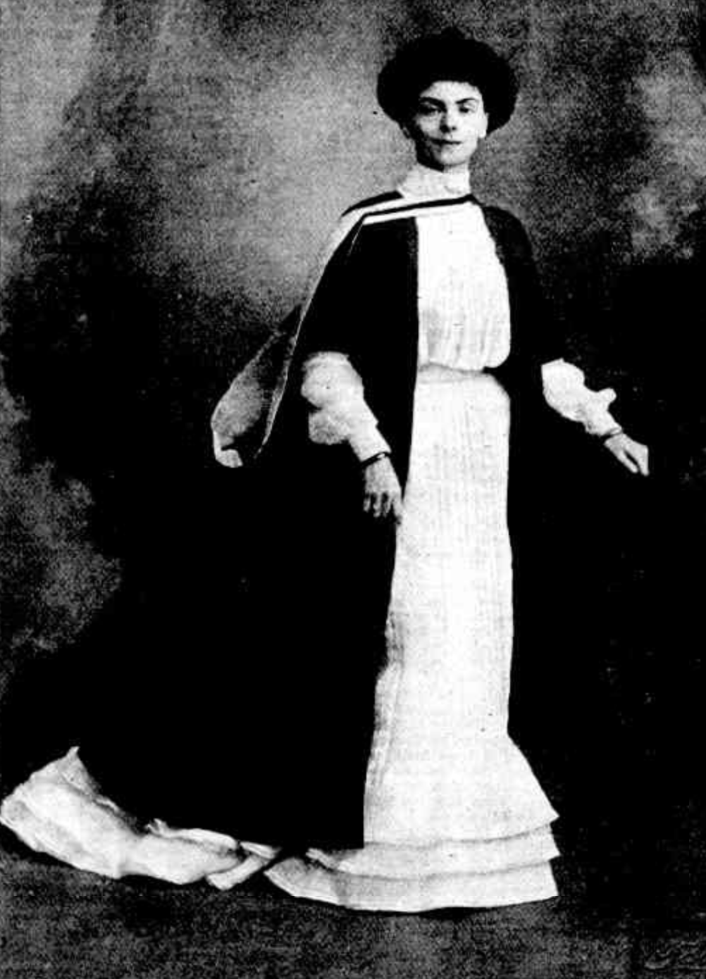 Ada Emily Evans, BA, LLB (Syd) (1872-1947), the first woman to graduate in law from an Australian university and to be admitted to the Bar in NSW